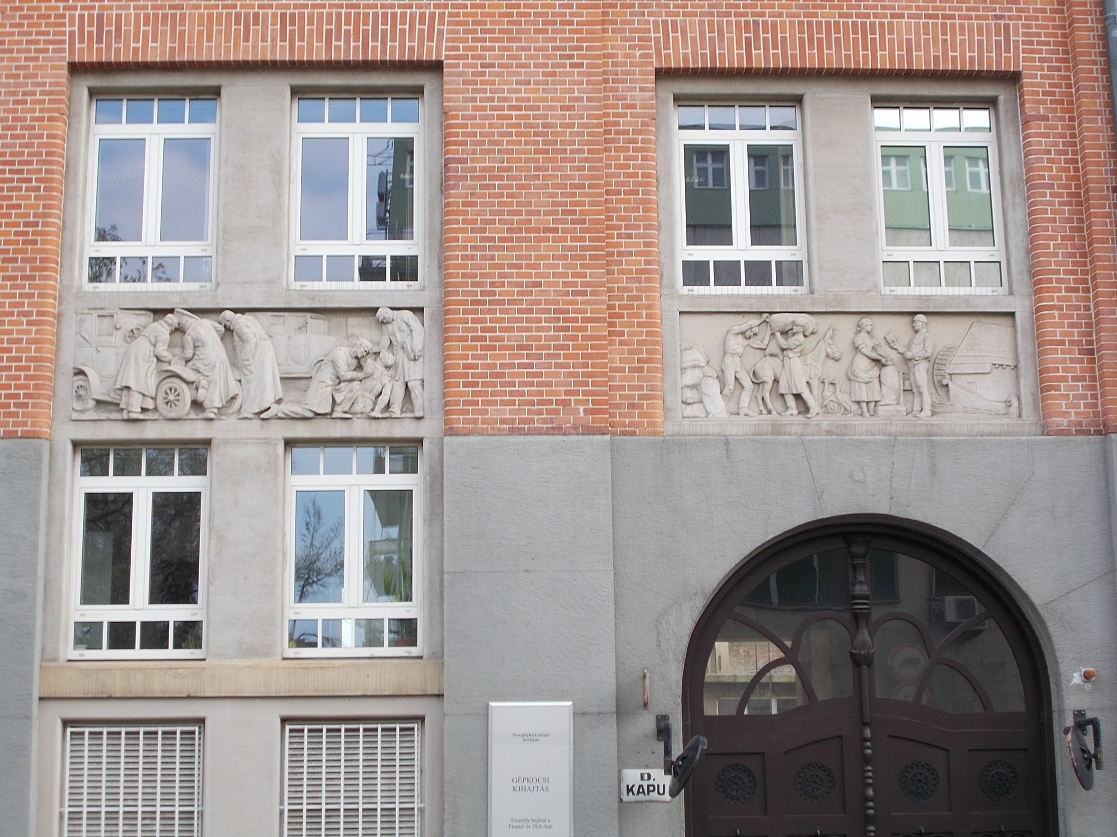 Architectural reliefs at Gate D. - Dologház Street, Népszínház neighbourhood, Budapest District VIII.